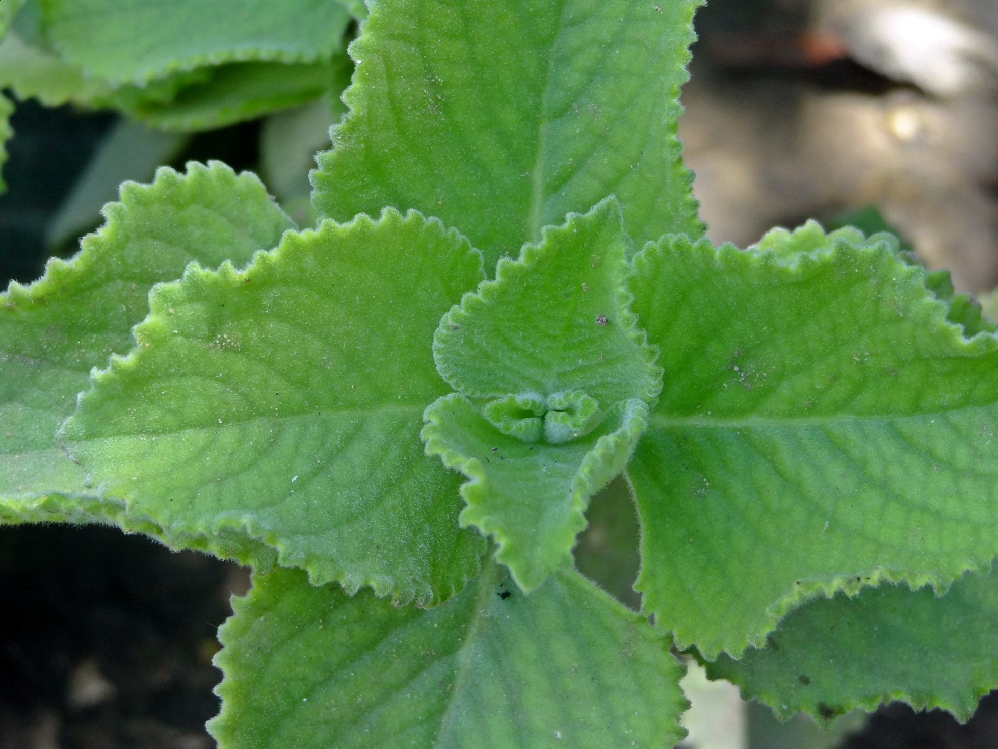 Plectranthus_amboinicus in jaffna, sri lanka